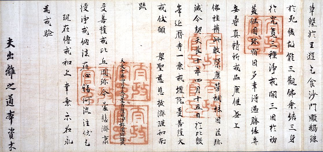 This document is part of an official certificate issued for Enchin when he received the bodhisattva precepts from Abbot Gishin at the Enryaku-ji Temple ordination platform in 833 (Tenchô 10). It is signed with the names of three administrative officers (J. bettô). This document is part of the national treasure: "Documents related to the priest Enchin (円珍関係文書, enchin kankei monjo)".